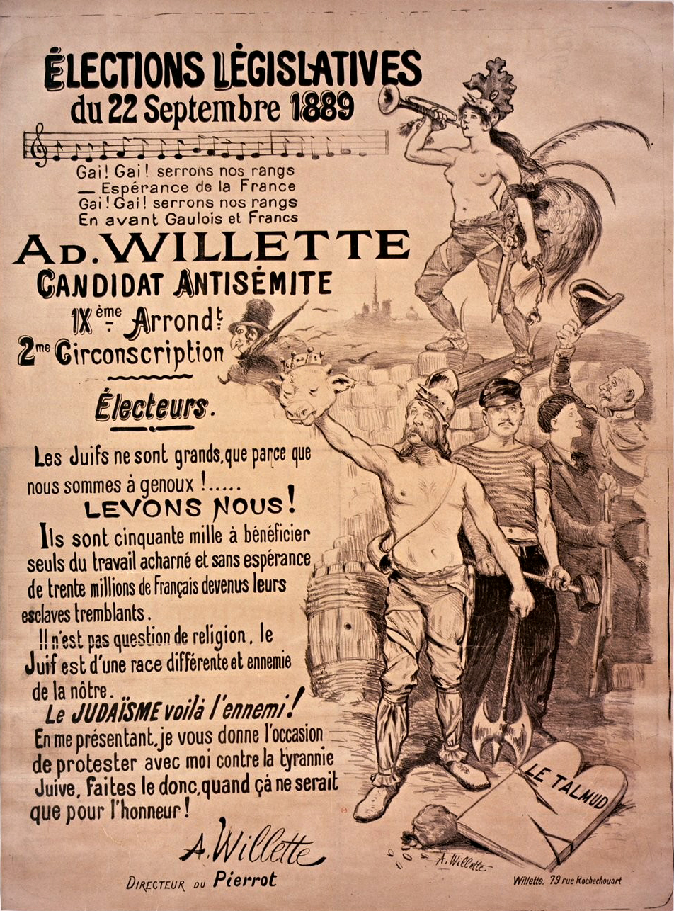 Paris, France elections poster for self-described anti-semitic candidate Adolphe Willette: "The Jews are a different race, hostile to our own... Judaism, there is the enemy!" As shown in the poster image, Willette ran as an anti-semitic candidate in the 9th arrondisement of Paris for the 1889 elections.